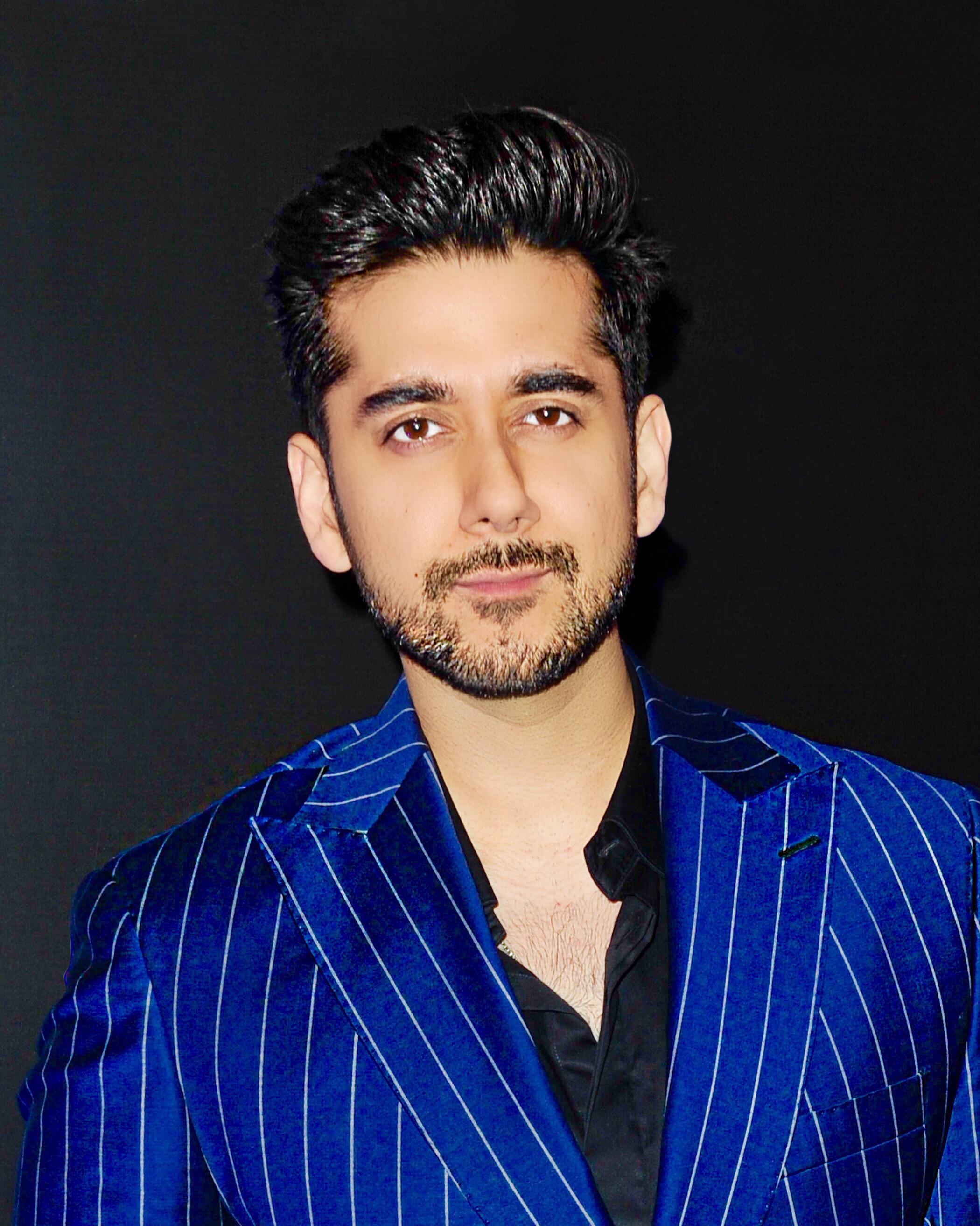 Vinay Virmani at an award function